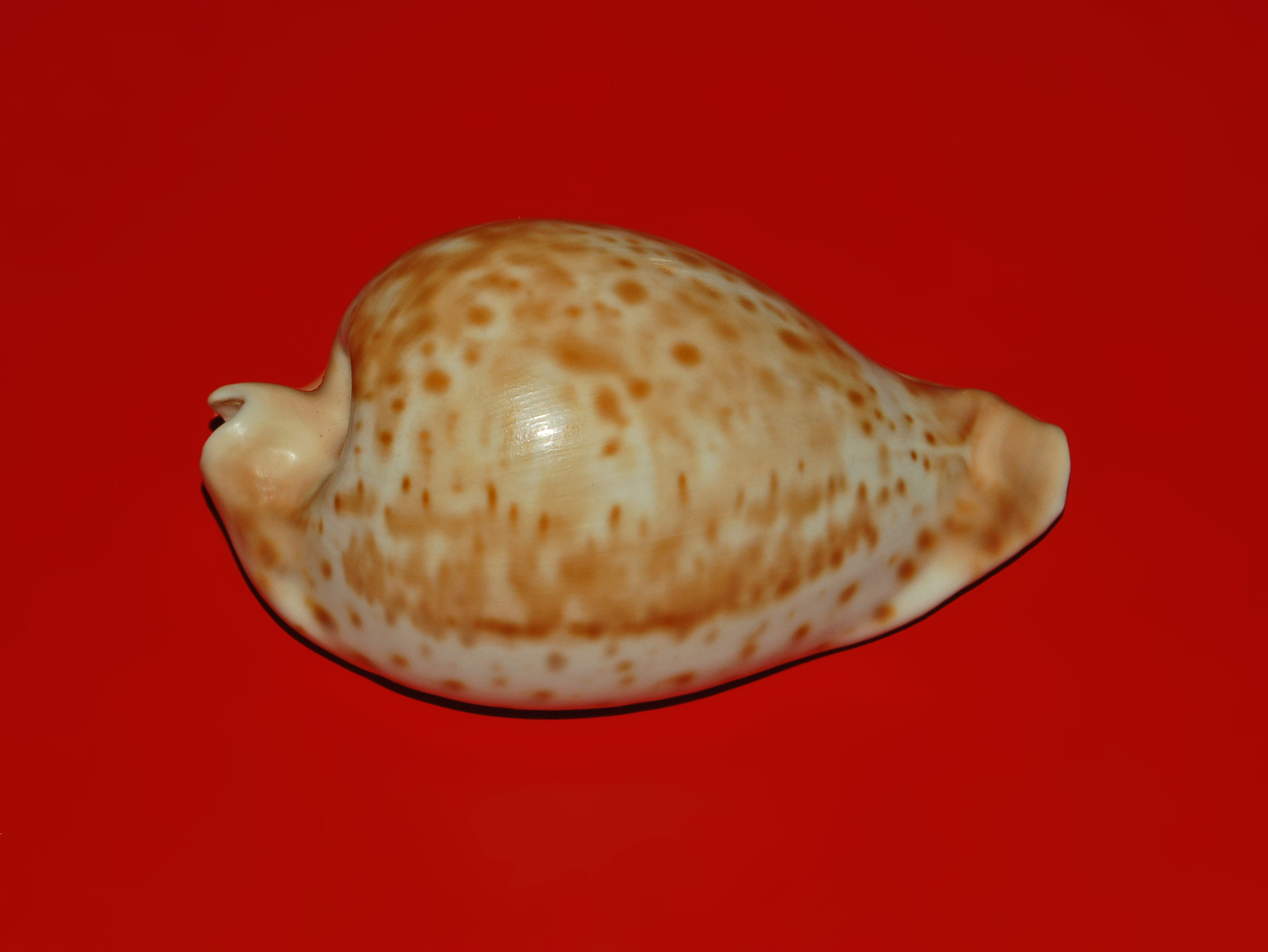 Umbilia hesitata, Australia